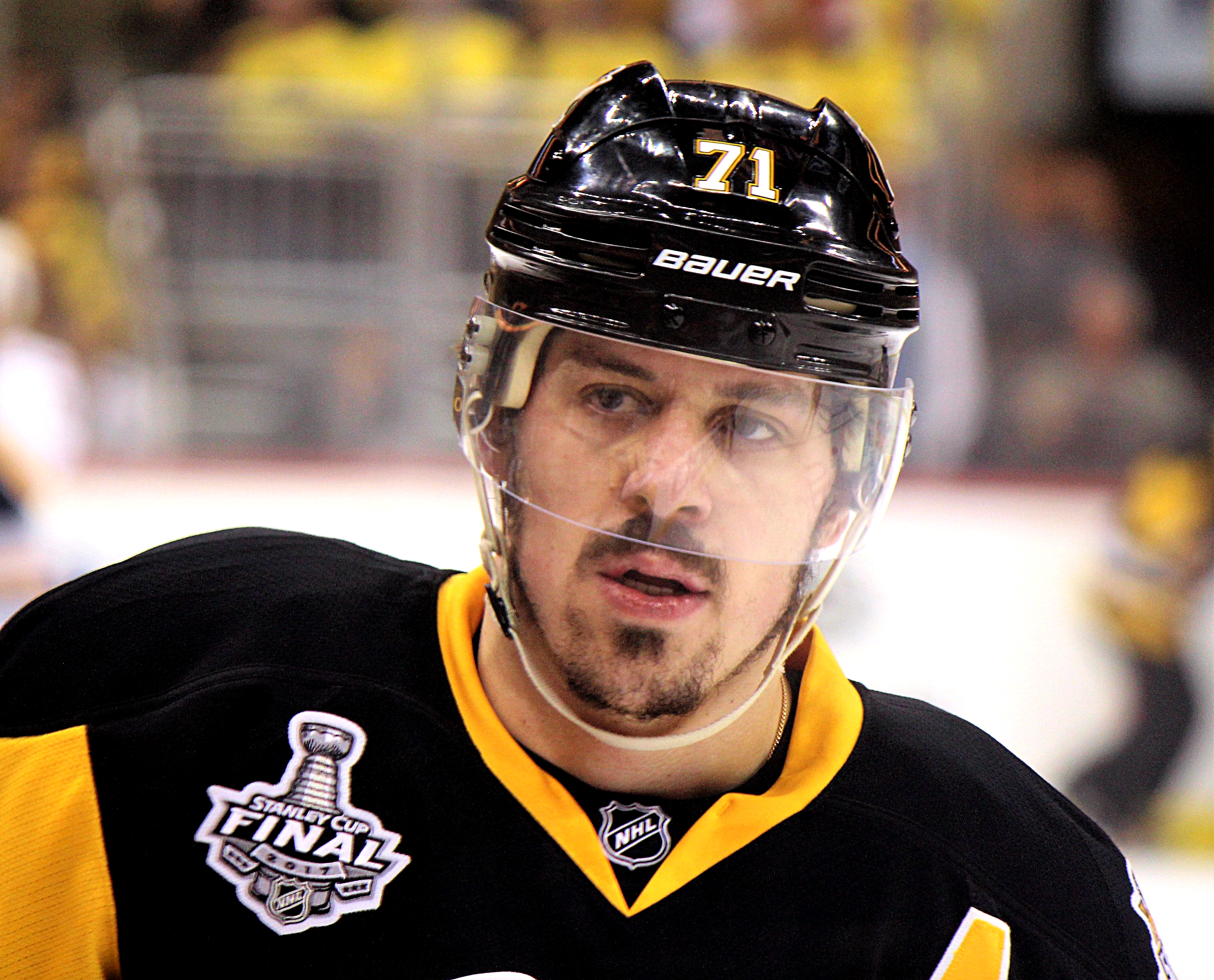 Pittsburgh Penguins forward Evgeni Malkin.